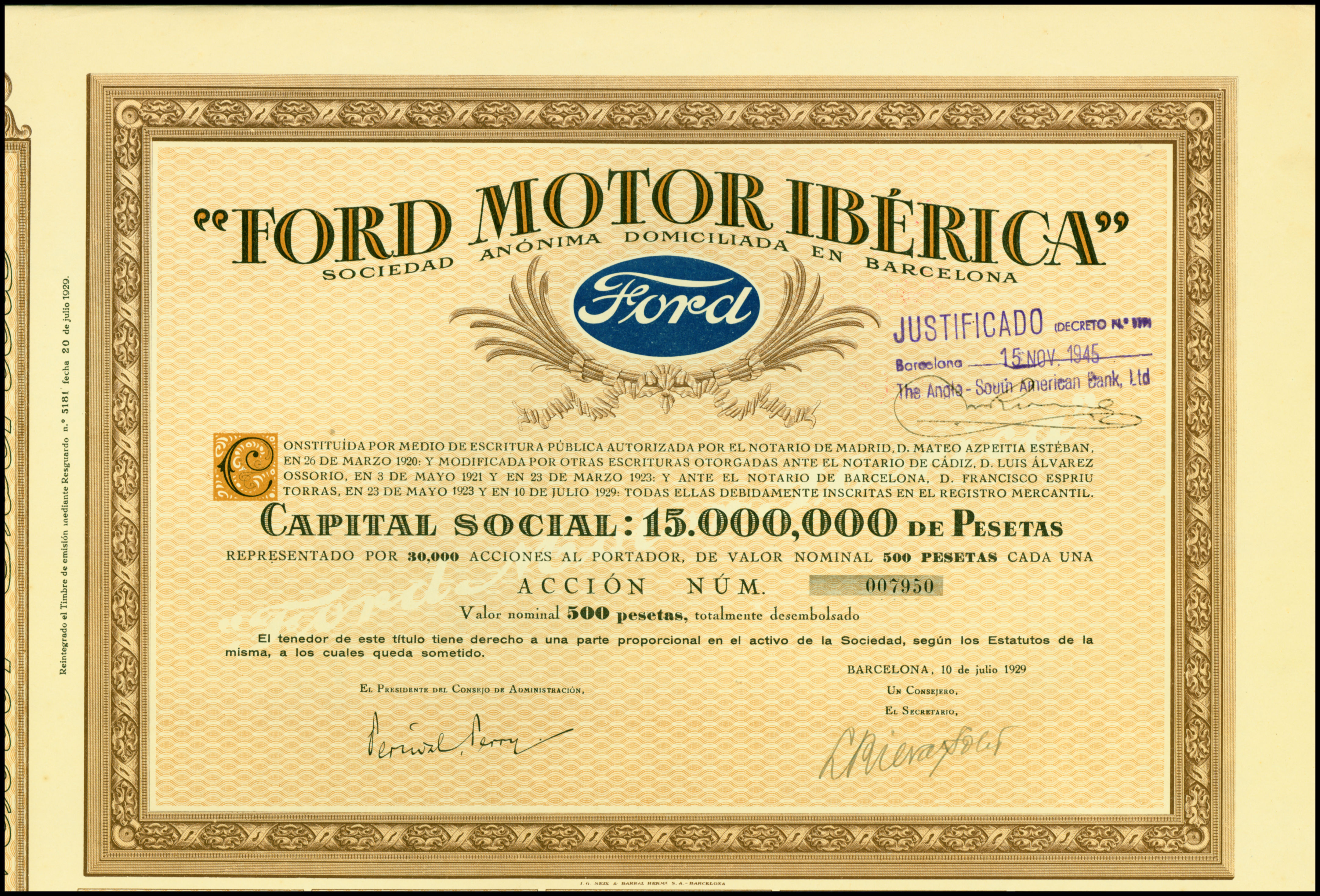 Share of the Ford Motor Ibérica S.A., issued 10. July 1929